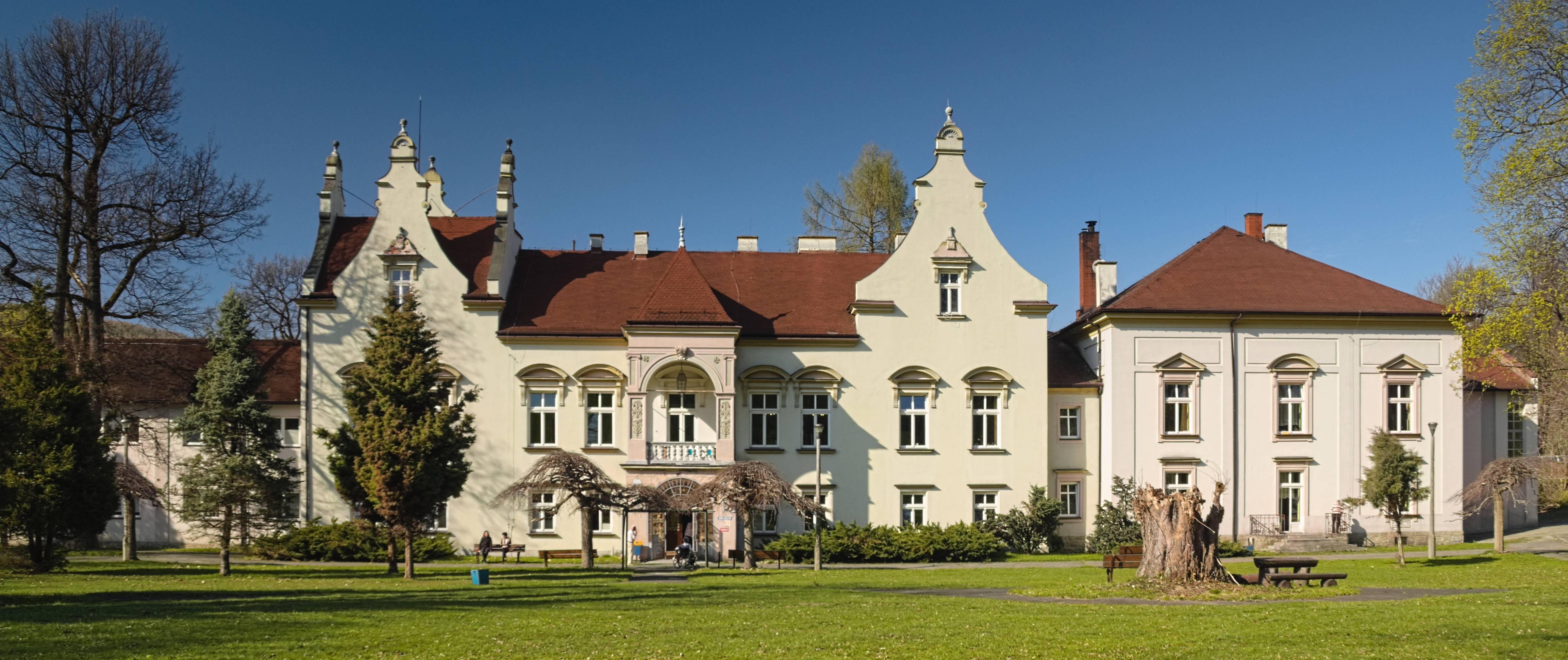 palace in Rajcza, southern elevation, view from park